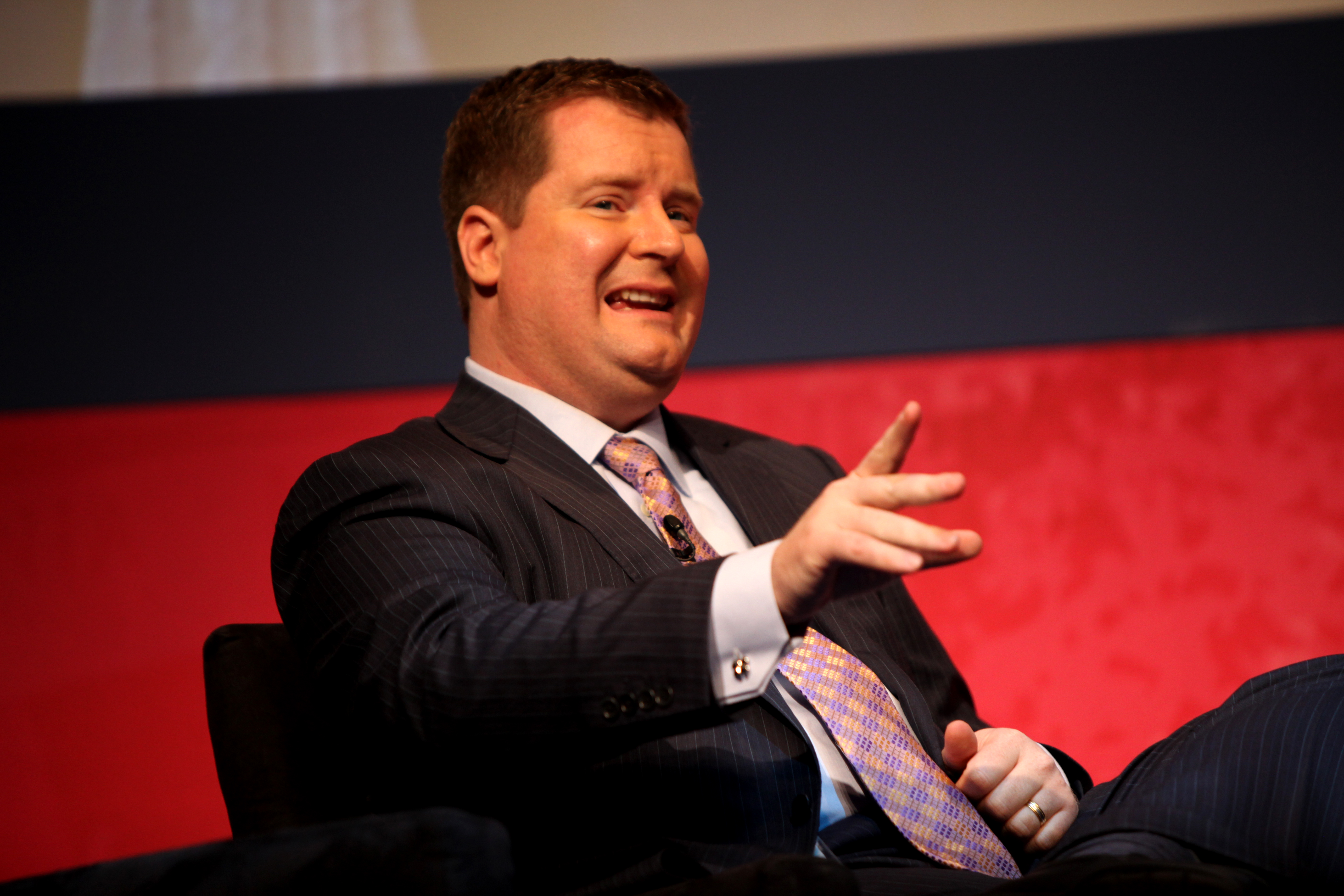 Erick Erickson speaking at the 2012 CPAC in Washington, D.C.